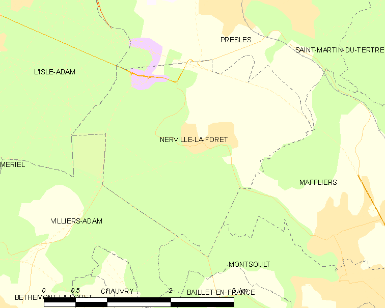 Map of French municipality Nerville-la-Forêt